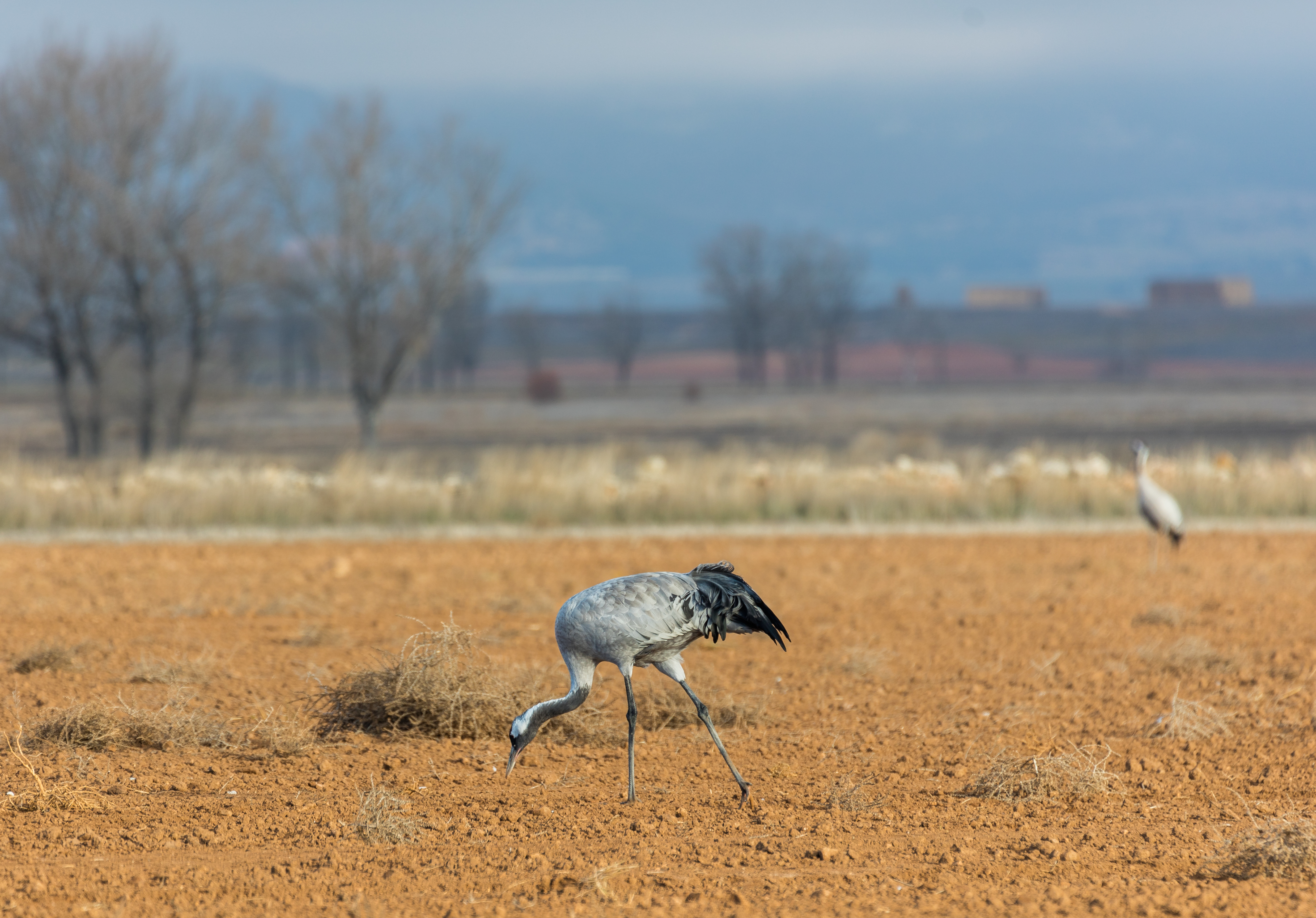 Common crane (Grus grus), Las Cuerlas, Teruel, Spain